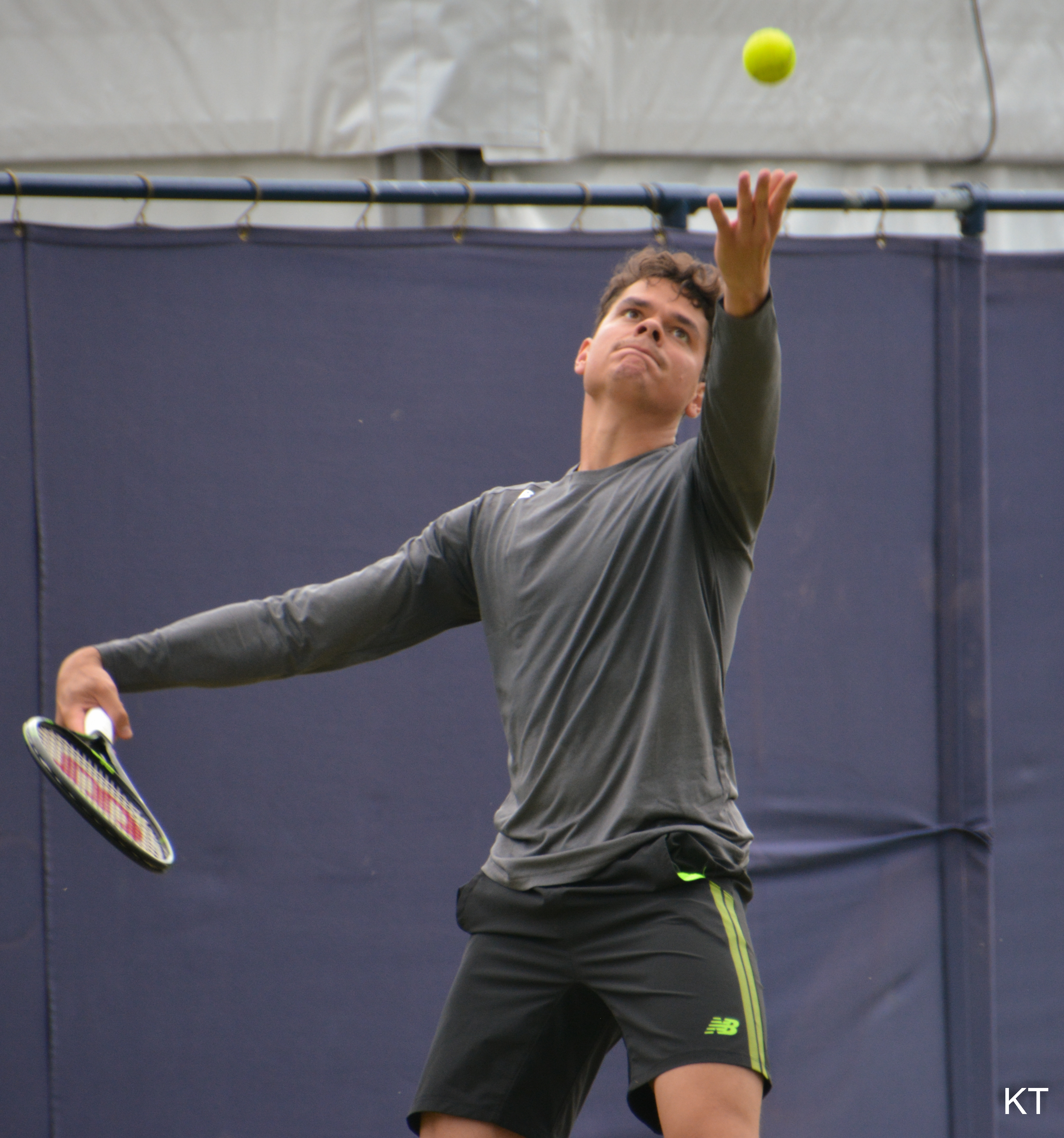 On the practice court. Aegon Championships, Queen's Club, June 2015.